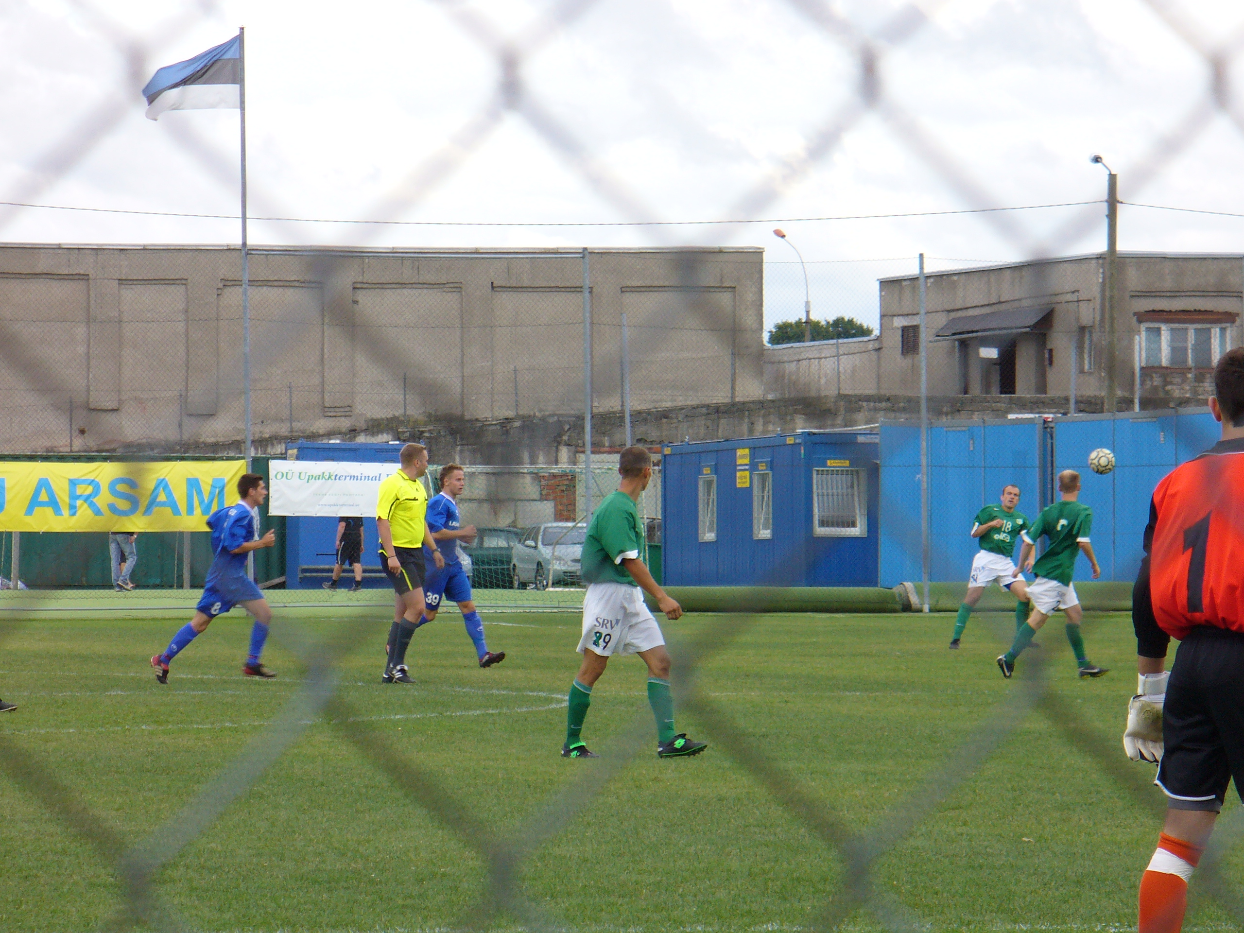 A 2nd division estonian football match, between FC Ajax Lasnamäe and FC Flora Rakvere